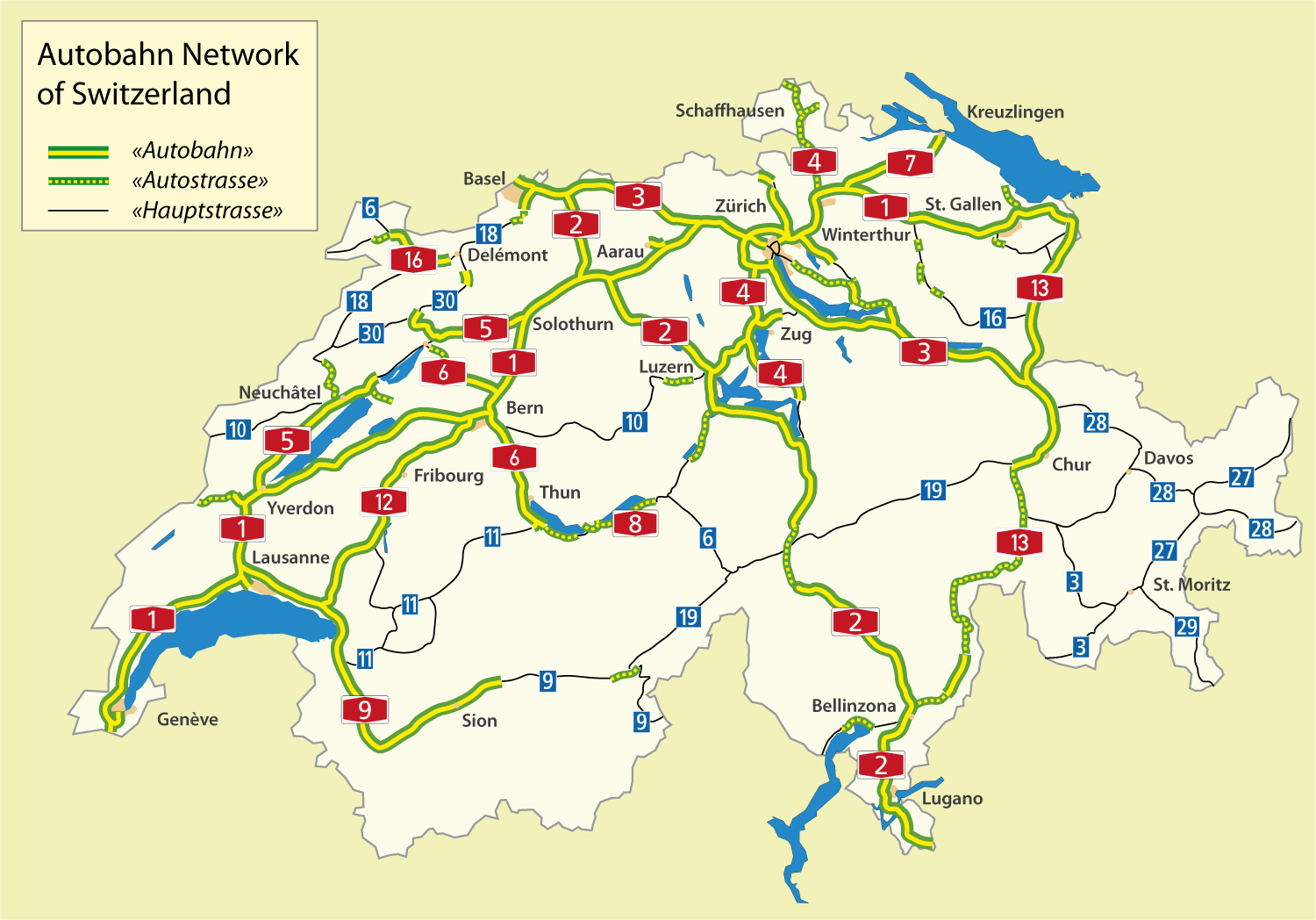 Highway (Autobahn) network of Switzerland